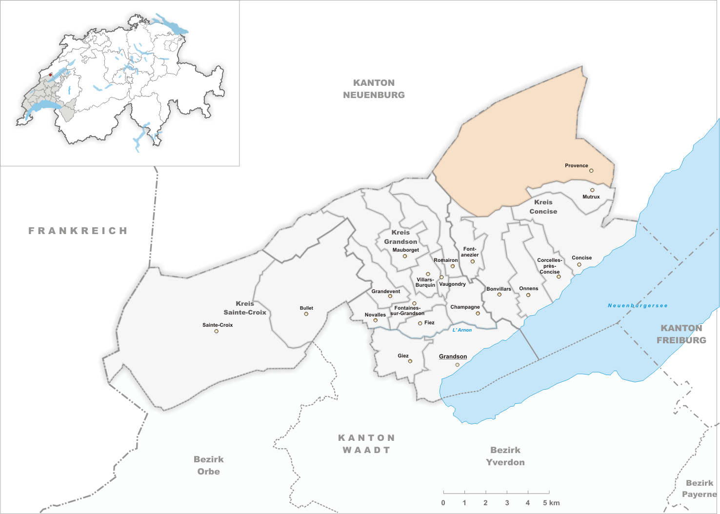 Municipality Provence